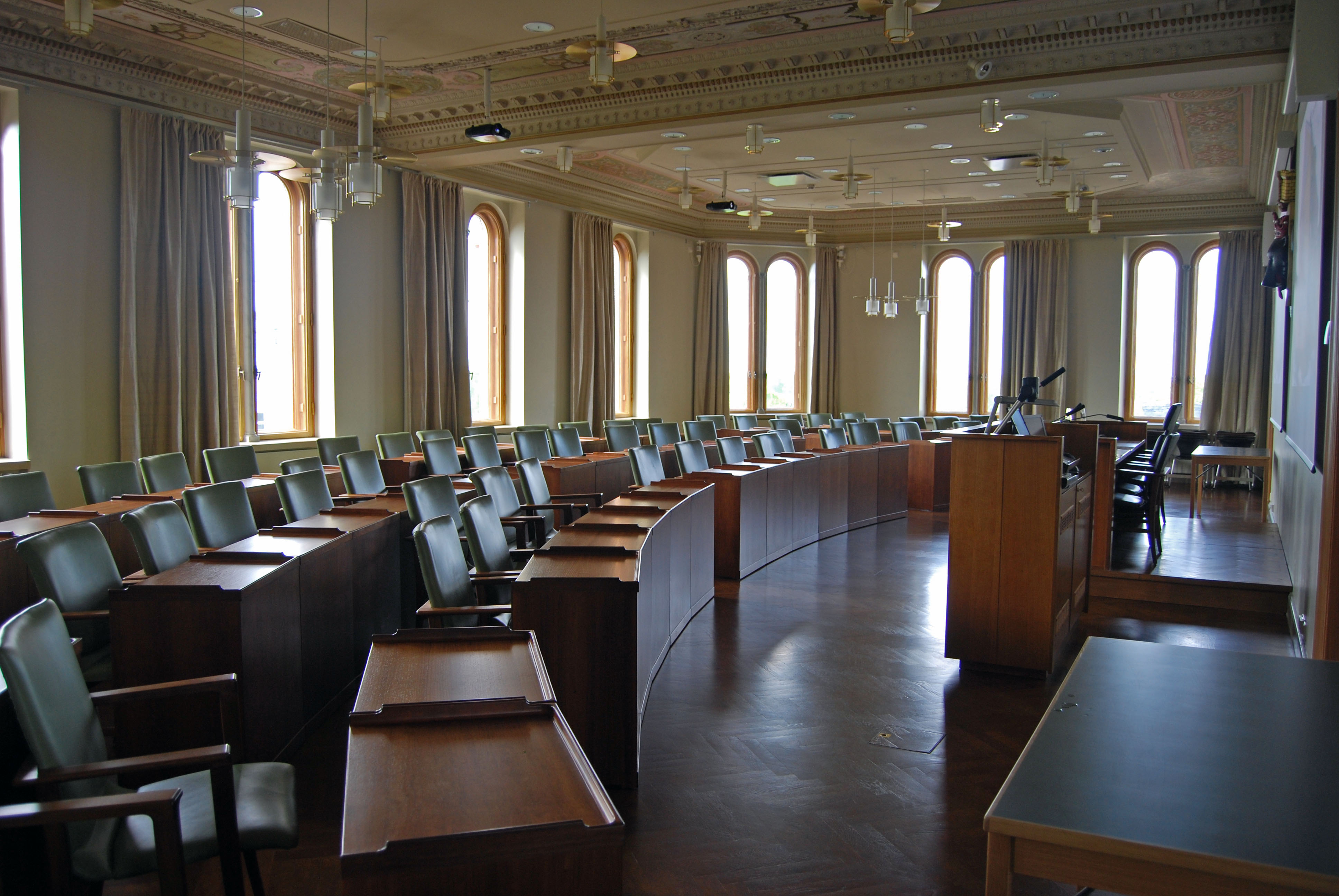 Meeting room of the city council at the Pori Town Hall in Pori, Finland